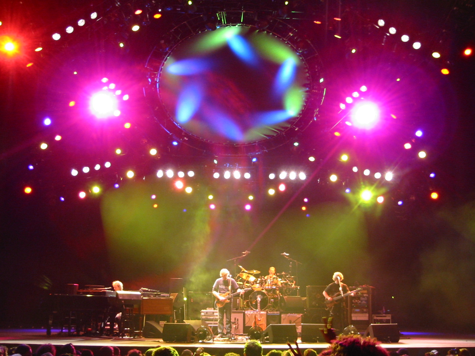 This is one of my favorite pictures I've taken. Phish performing at the Gorge on July 13, 2003. Left to right: Page McConnell, Trey Anastasio, Jon Fishman, Mike Gordon. Visual effects by Chris Kuroda.